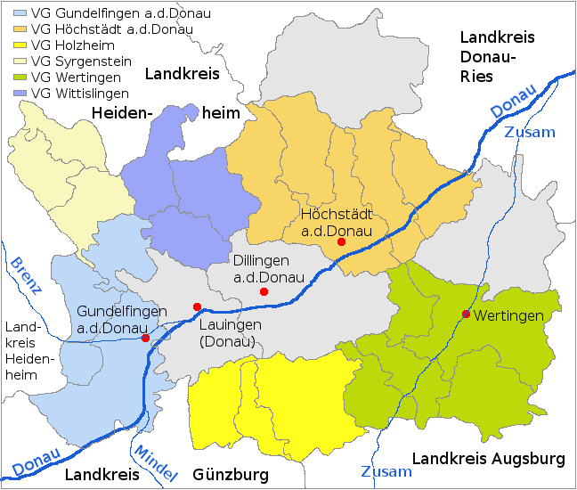 Verwaltungsgemeinschaften in the district of Dillingen